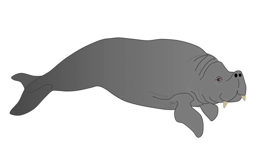 extinct genus of sirenian